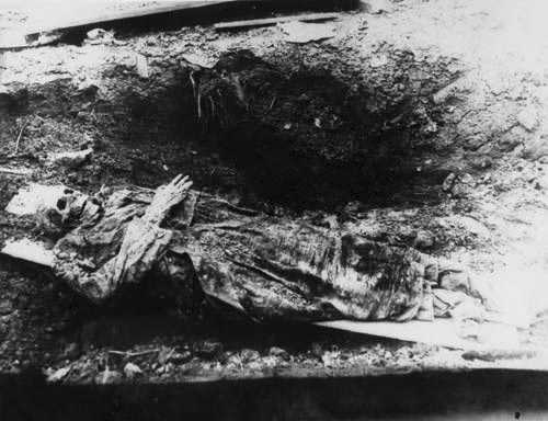 The body of Edward Kosibowicz - abbot of jesuit monastery in Warsaw's district Mokotów - murdered by German troops on 2nd August 1944. Photo taken during the exhumation in 1945.